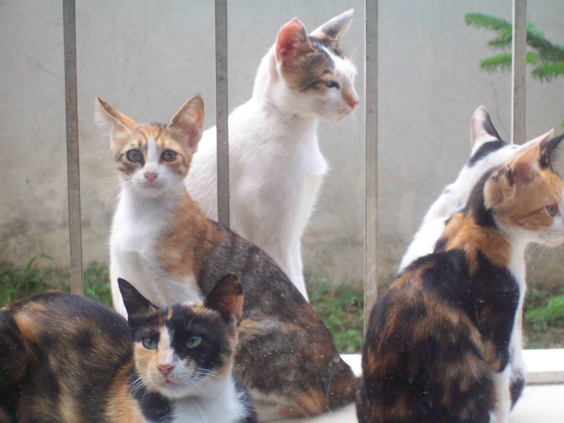 Various examples of calico cats, with turtle shell or striped patterns.